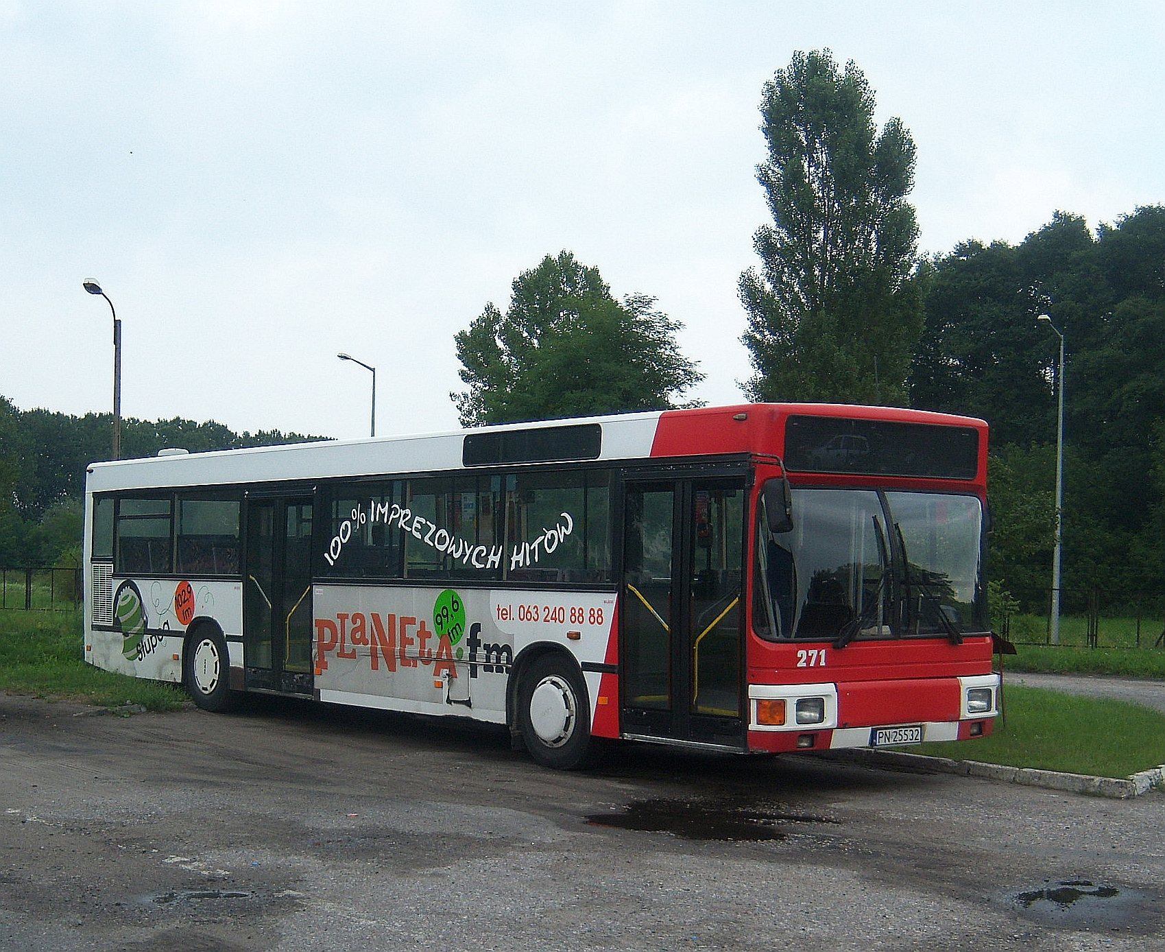 MAN NL202 bus (#271) in Konin, Poland. Built 1994, MZK Konin operator.